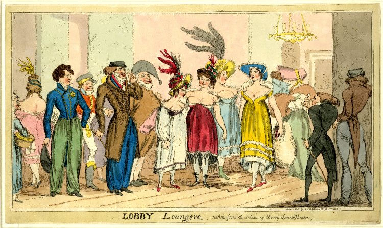 Print from 1816 of Lord Byron ogling Mrs Mardyn (1789-after 1844) by George Cruikshank (1792-1878)